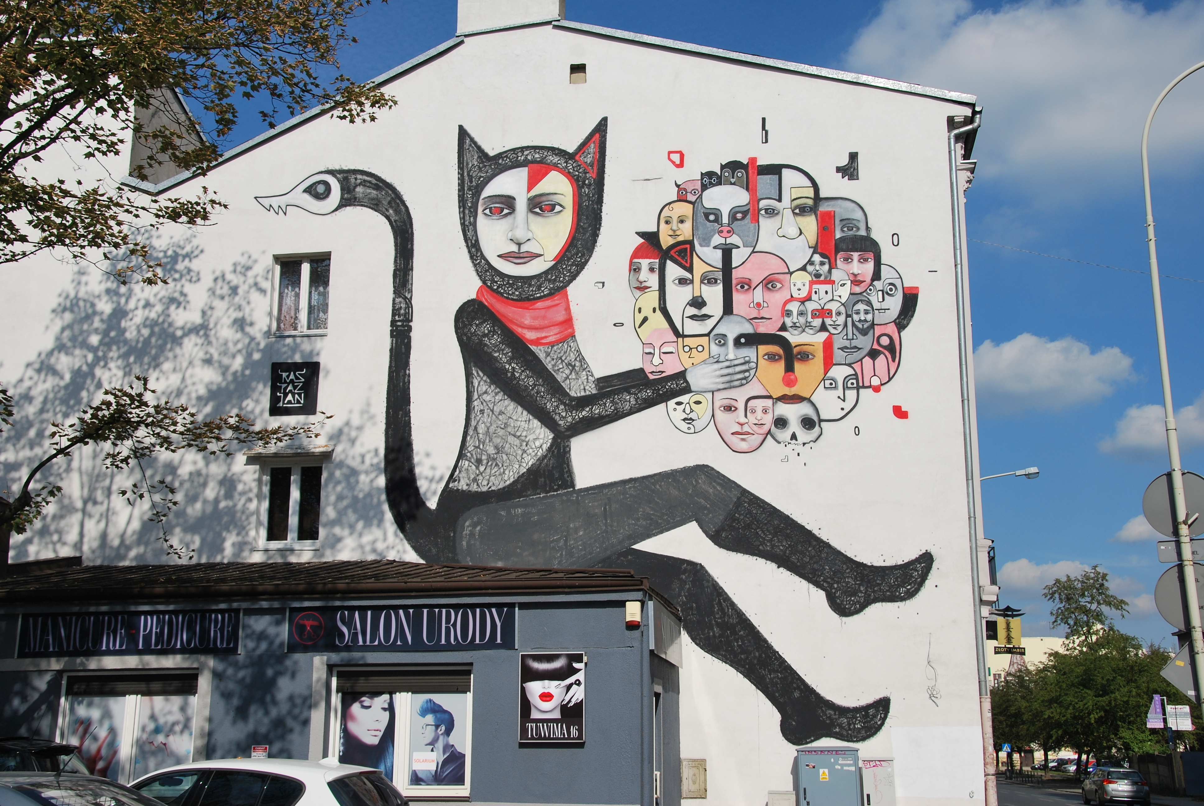 Mural of Raspazjan Łódź Sienkiewicza Tuwima Streets